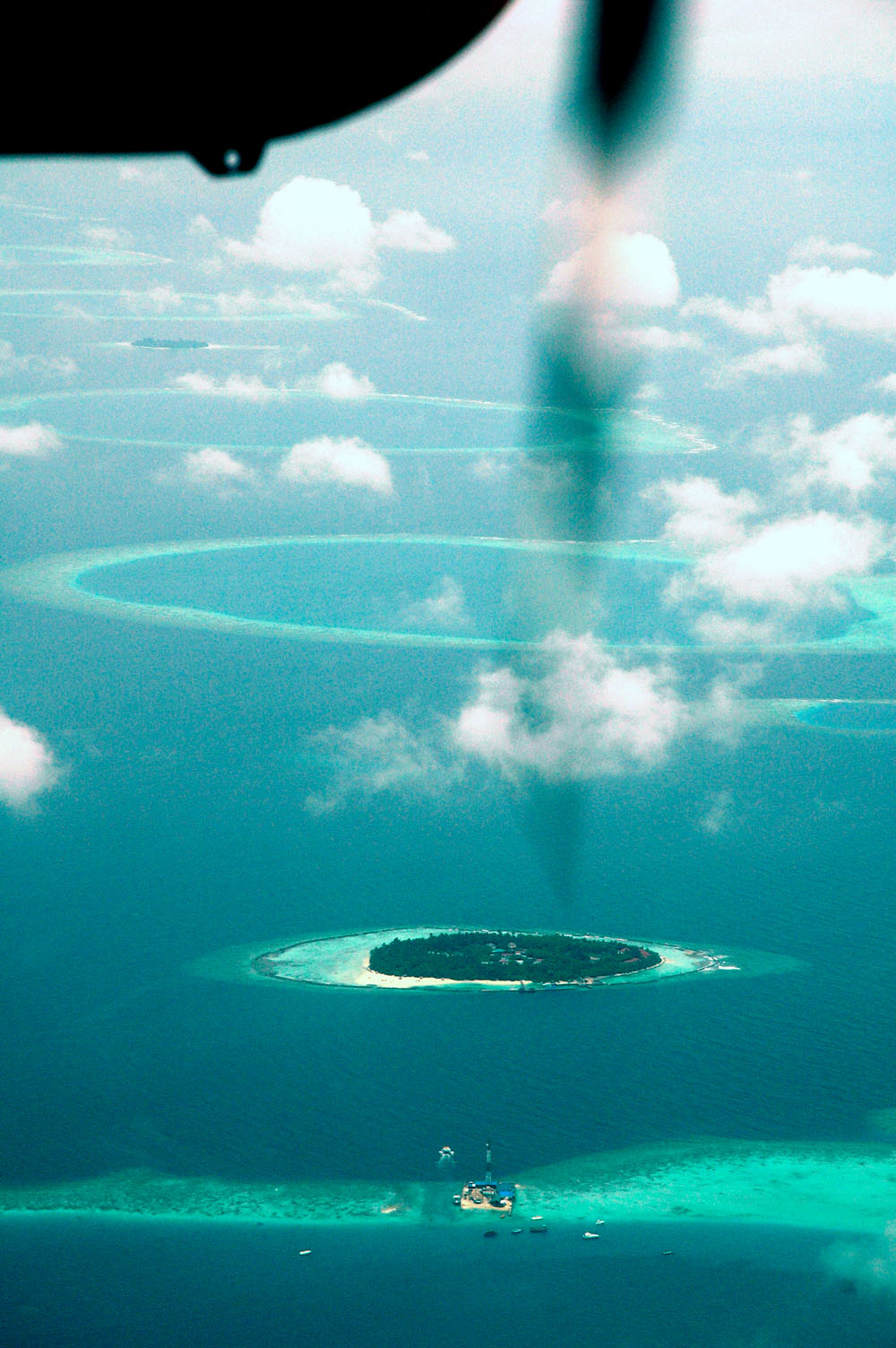 Eastern reef of Maldivian Ari Atoll from seaplane, showing islands of Ellaidhoo and Bathaala, in addition to some passes.